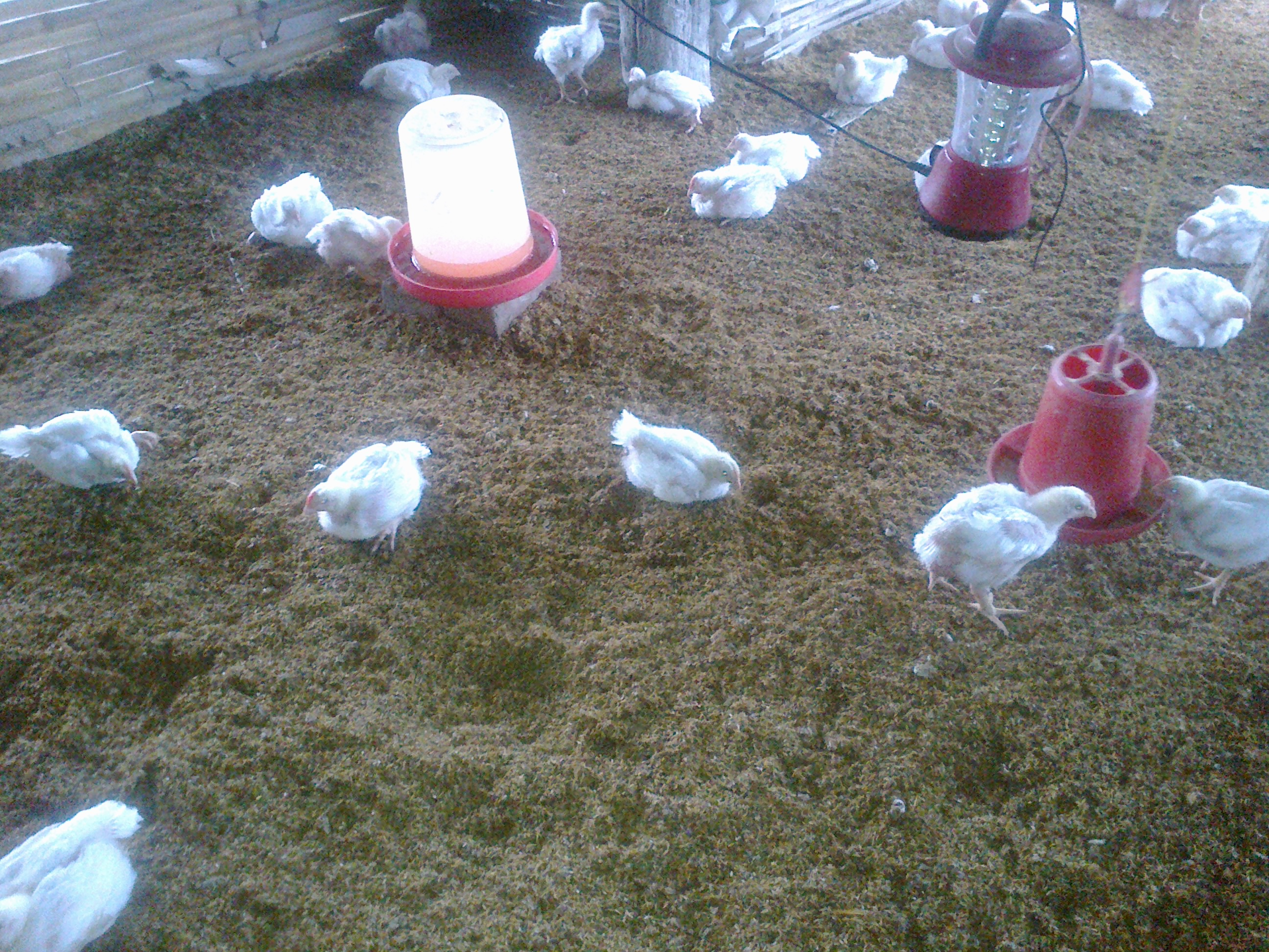 Photo showing poultry farming in Nepal